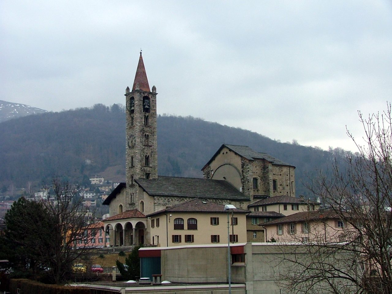 The Church Santo Stefano of Tesserete - Ticino - Switzerland